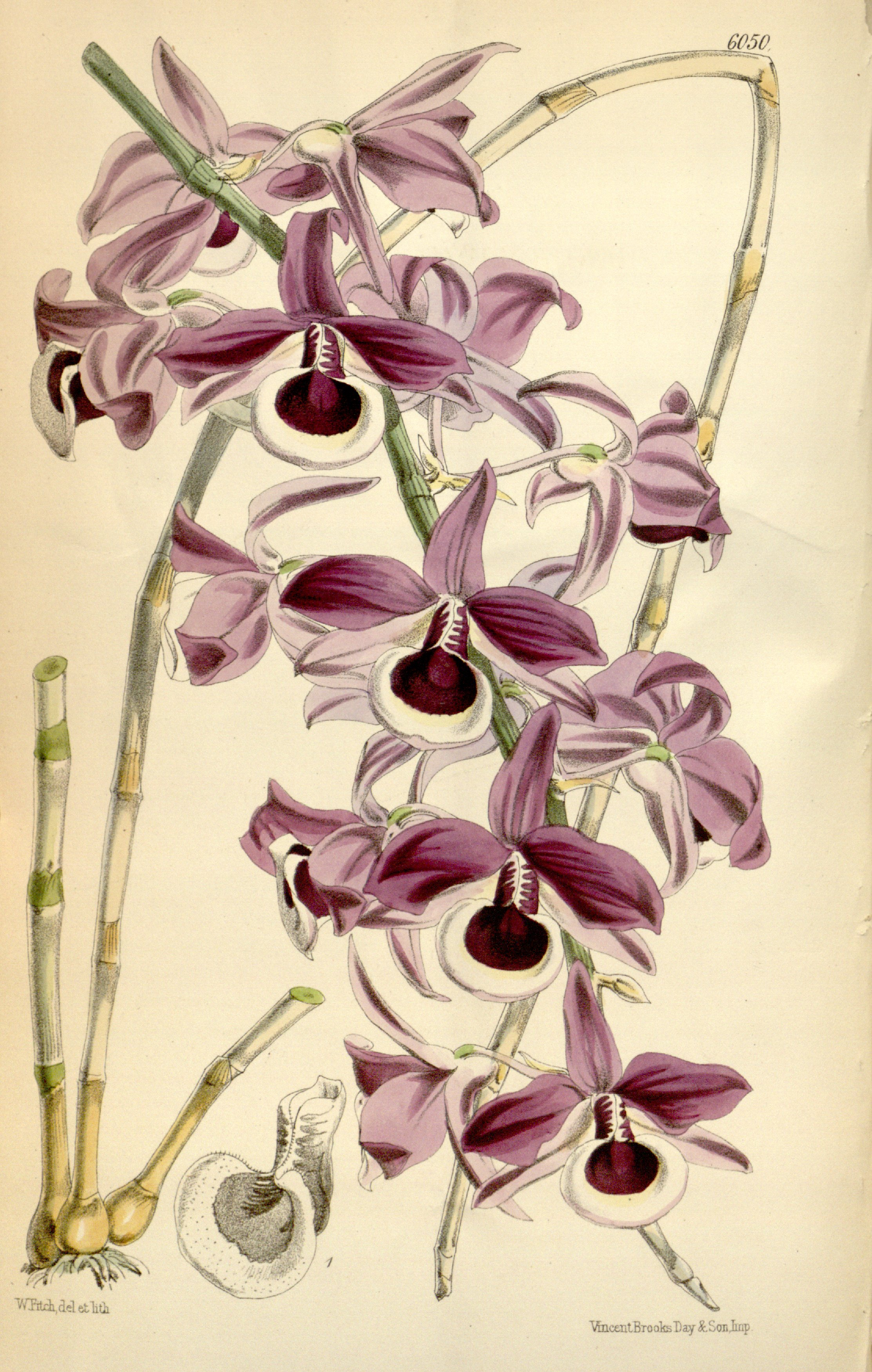 Illustration of Dendrobium lituiflorum